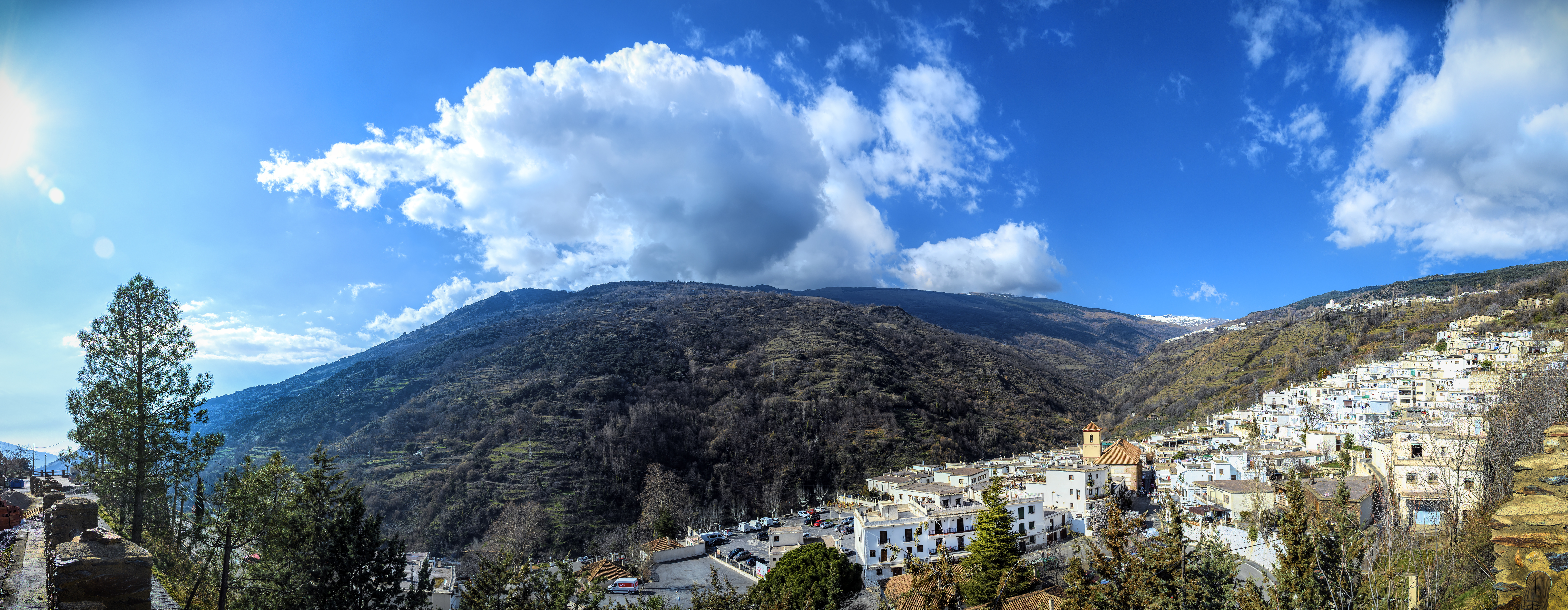 Winter view from above the town of Pampaneira, one of the white villages of Las Alpujjaras, Andalucia, Spain